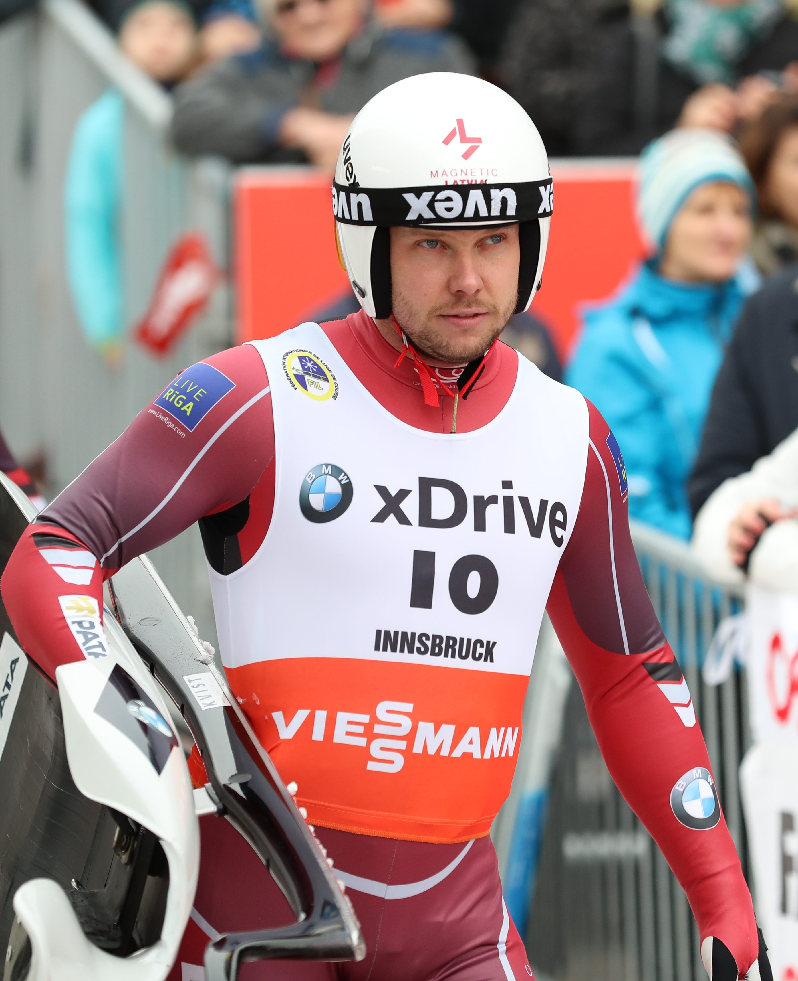 Doubles Sprint World Cup race at the 2018/19 Luge World Cup in Innsbruck-Igls